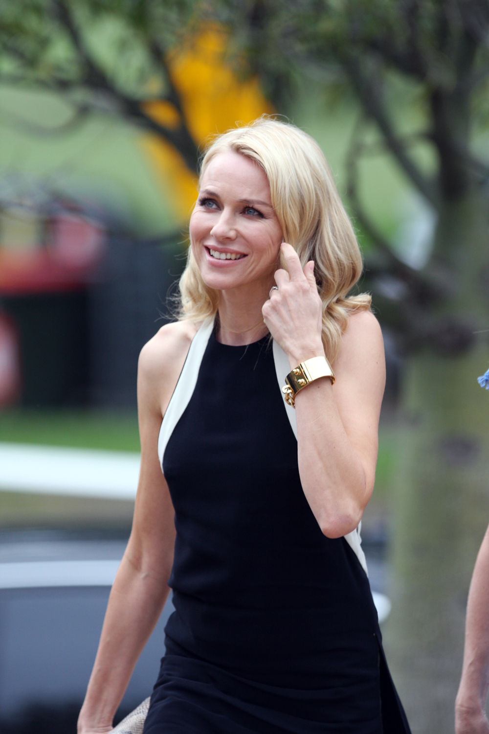 Naomi Watts Promotes Jacob's Creek Cool Harvest At Centennial Park